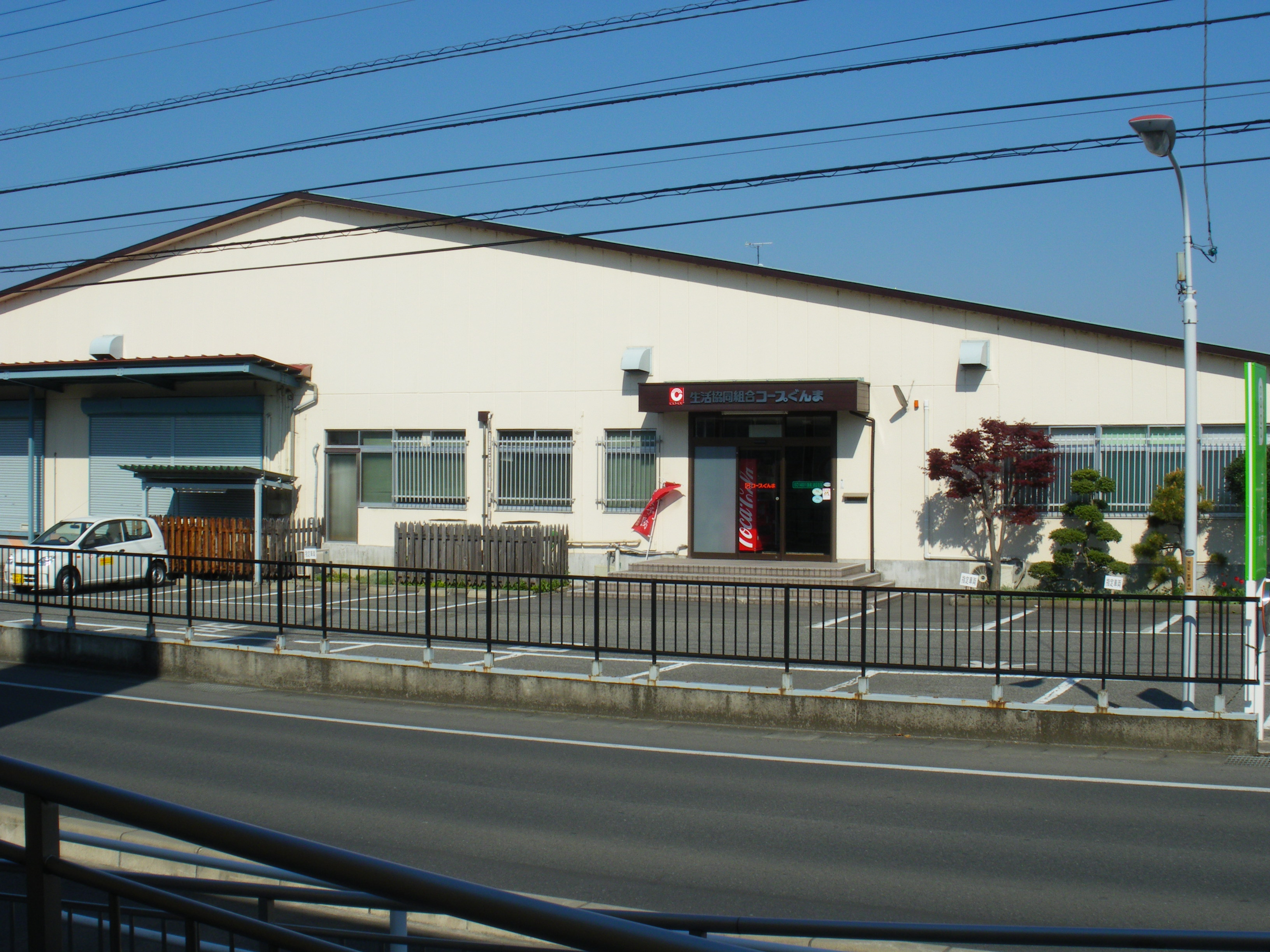 Entrance1 of Coop-Gunma